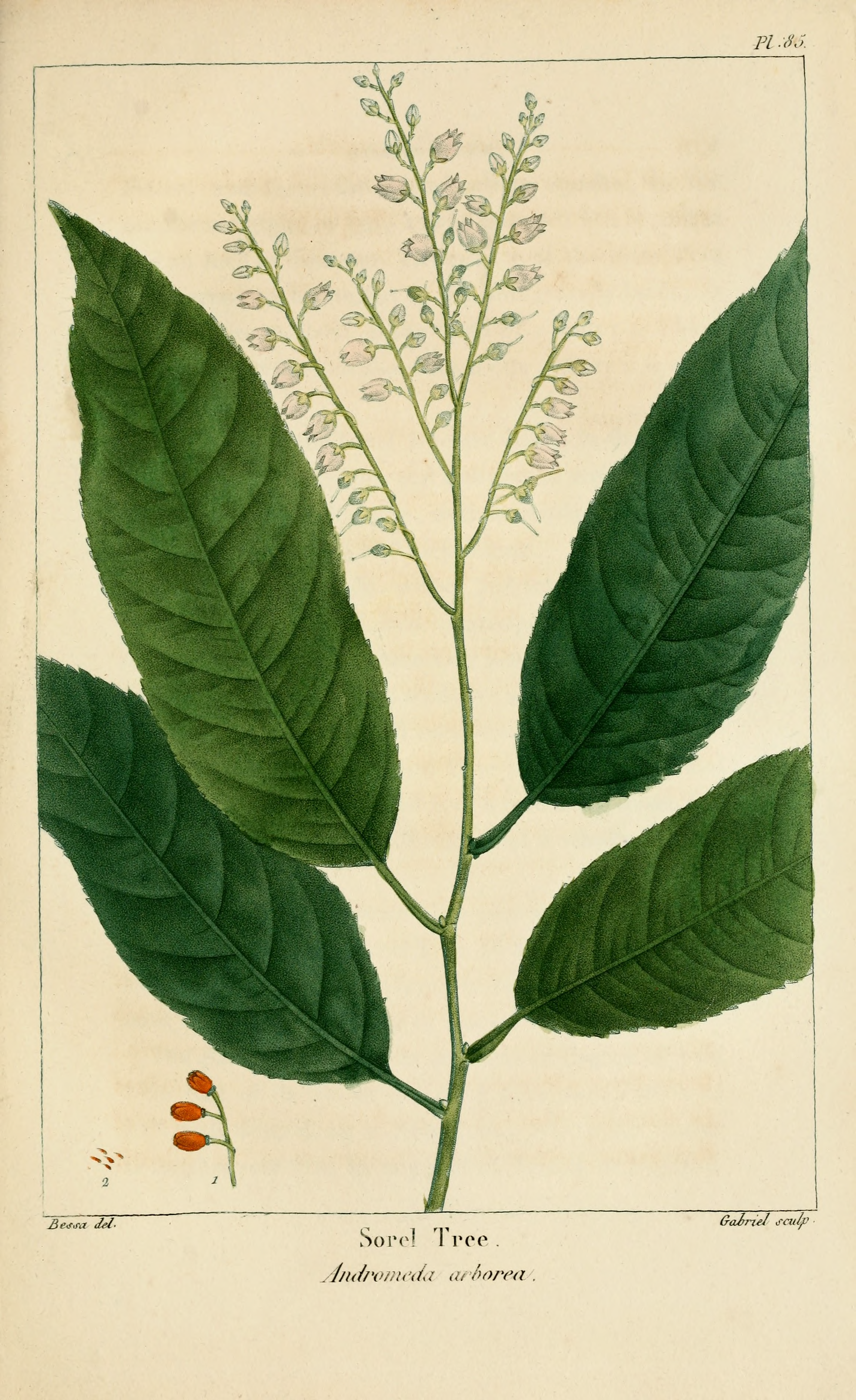 Plate from The North American Sylva